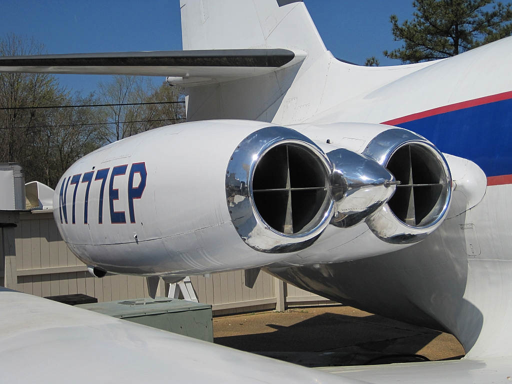 Elvis Presley custom plane Lockheed Jet Star "Hound Dog II" at Graceland in Memphis, Tennessee